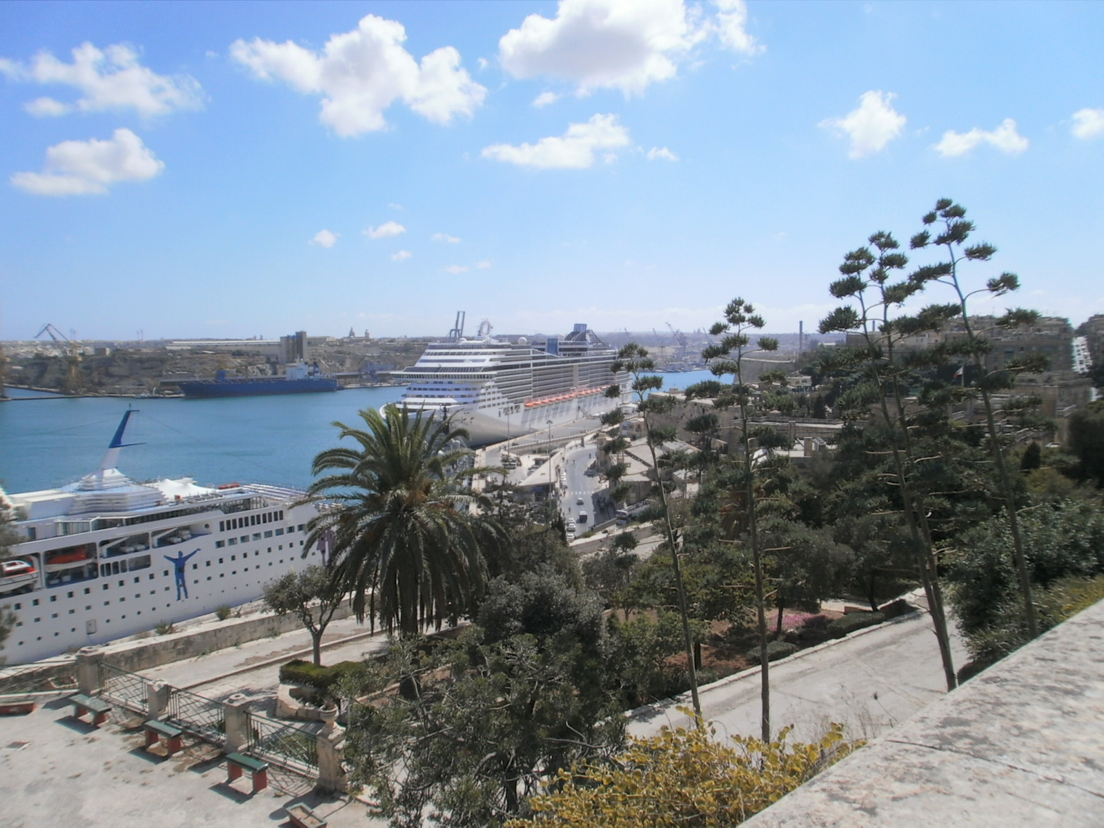 View of Malta's Grand Harbour